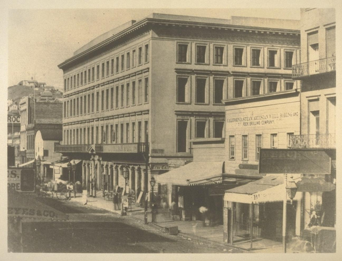 The Montgomery Block building at the corner of Washington and Kearny Streets in San Francisco, California, USA, in 1862, with Telegraph Hill visible in the distance